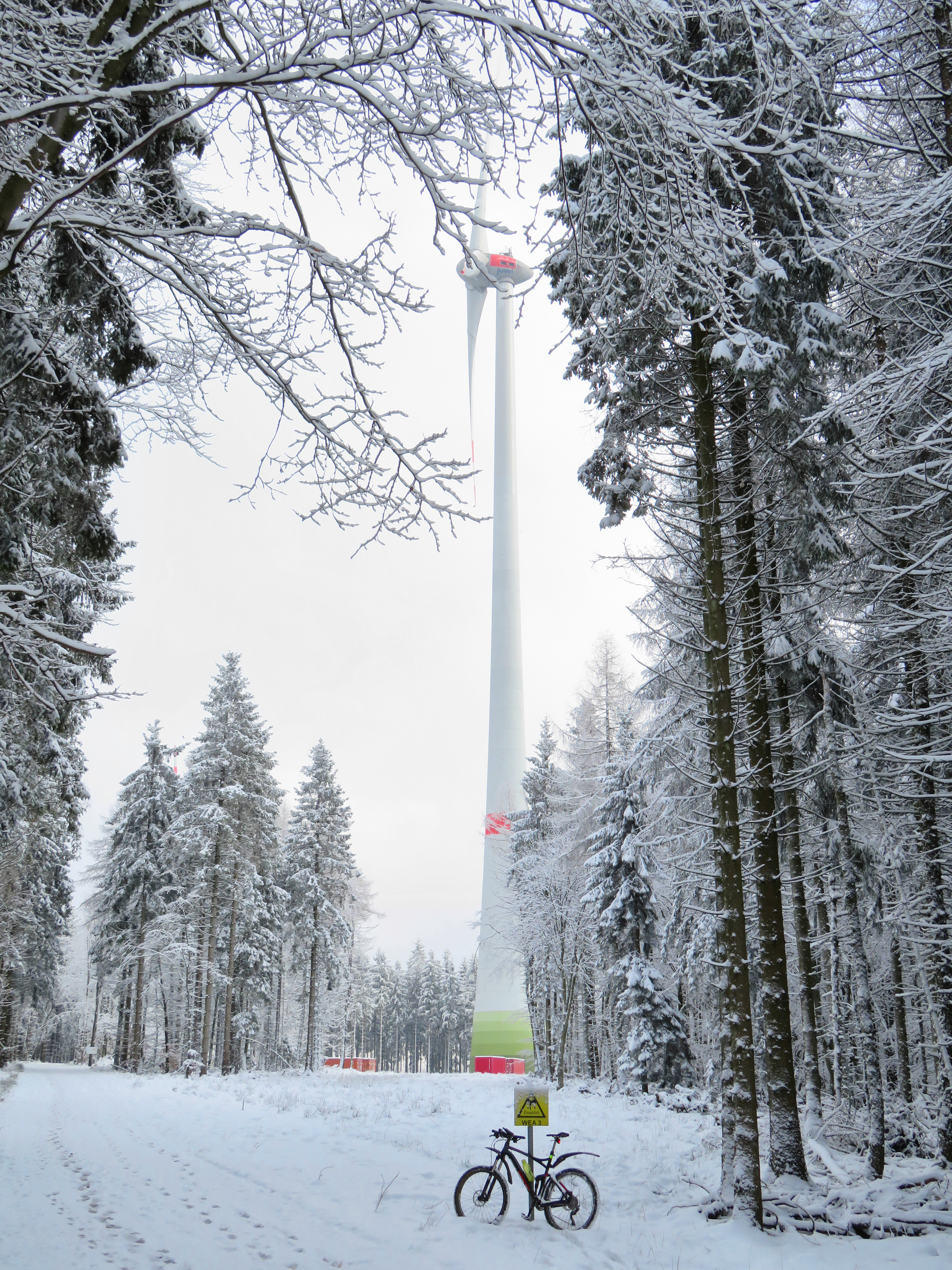 Wind turbine no. 3 type E-115 with 115 m rotor diameter and 207 m total height on the Schimmelkopf near Weiskirchen